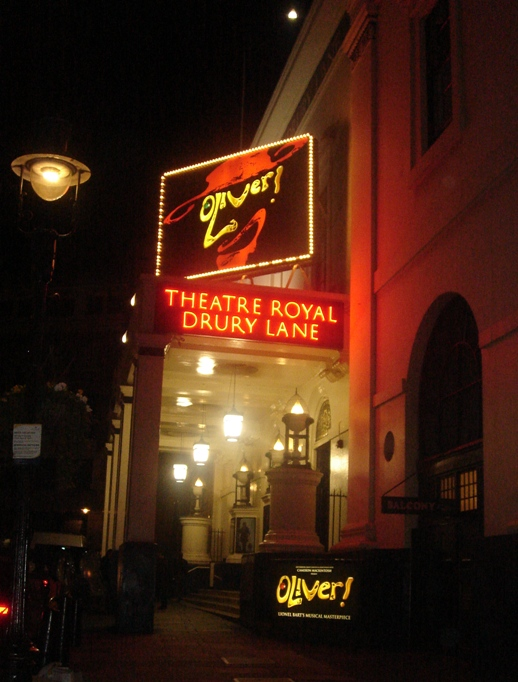 Personal photograph of the Theatre Royal in London's billboard showing Oliver!. Taken in March 2009.